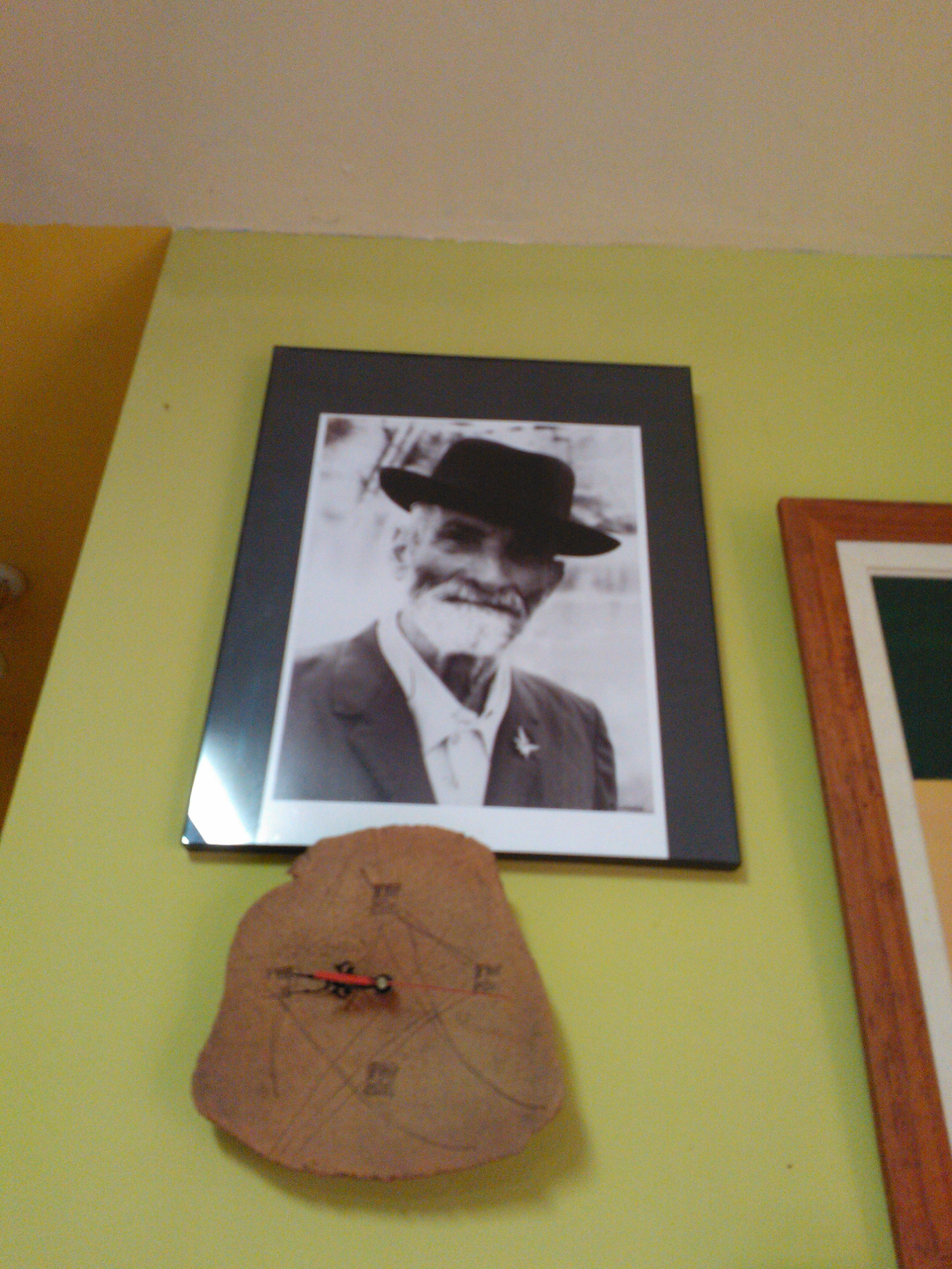 Francisco Rodríguez Santana (Santa Brígida, Gran Canaria, March 21, 1907 - Ditto, on March 28, 1986), better known as Panchito, was a doubly innovative Potter at the focus locero of La Atalaya, northeast of the island of Gran Canaria. Your personal sensitivity, the quality of their parts, and above all, the fact of being the first male representative of the Guild, turned you into tourist objective and valuable photographic icon of fans to the popular craft canaria, entering the own Panchito part of the ethnographic legend of the island.